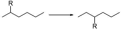 1,2-rearrangement